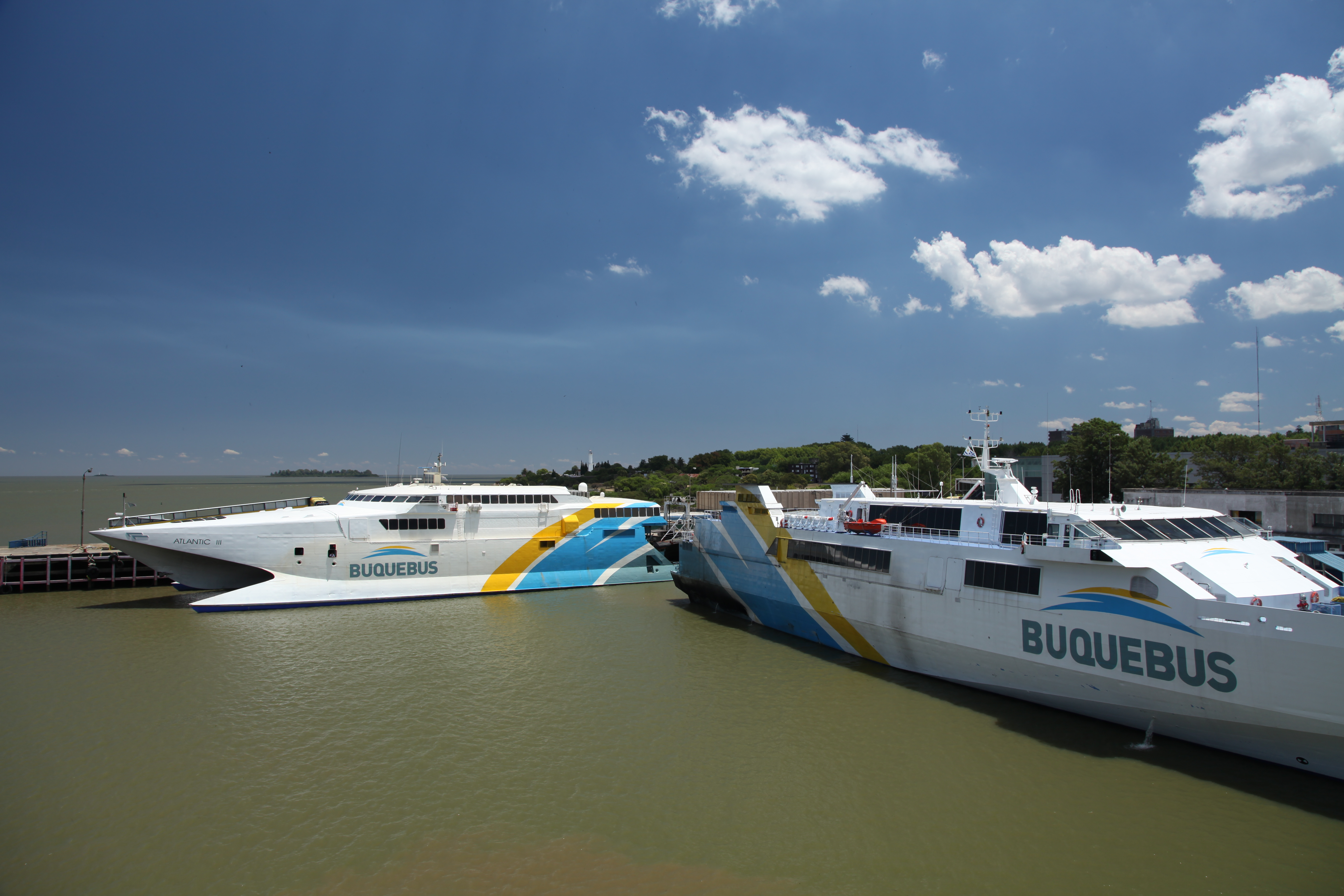 Ferry Terminal in Colonia